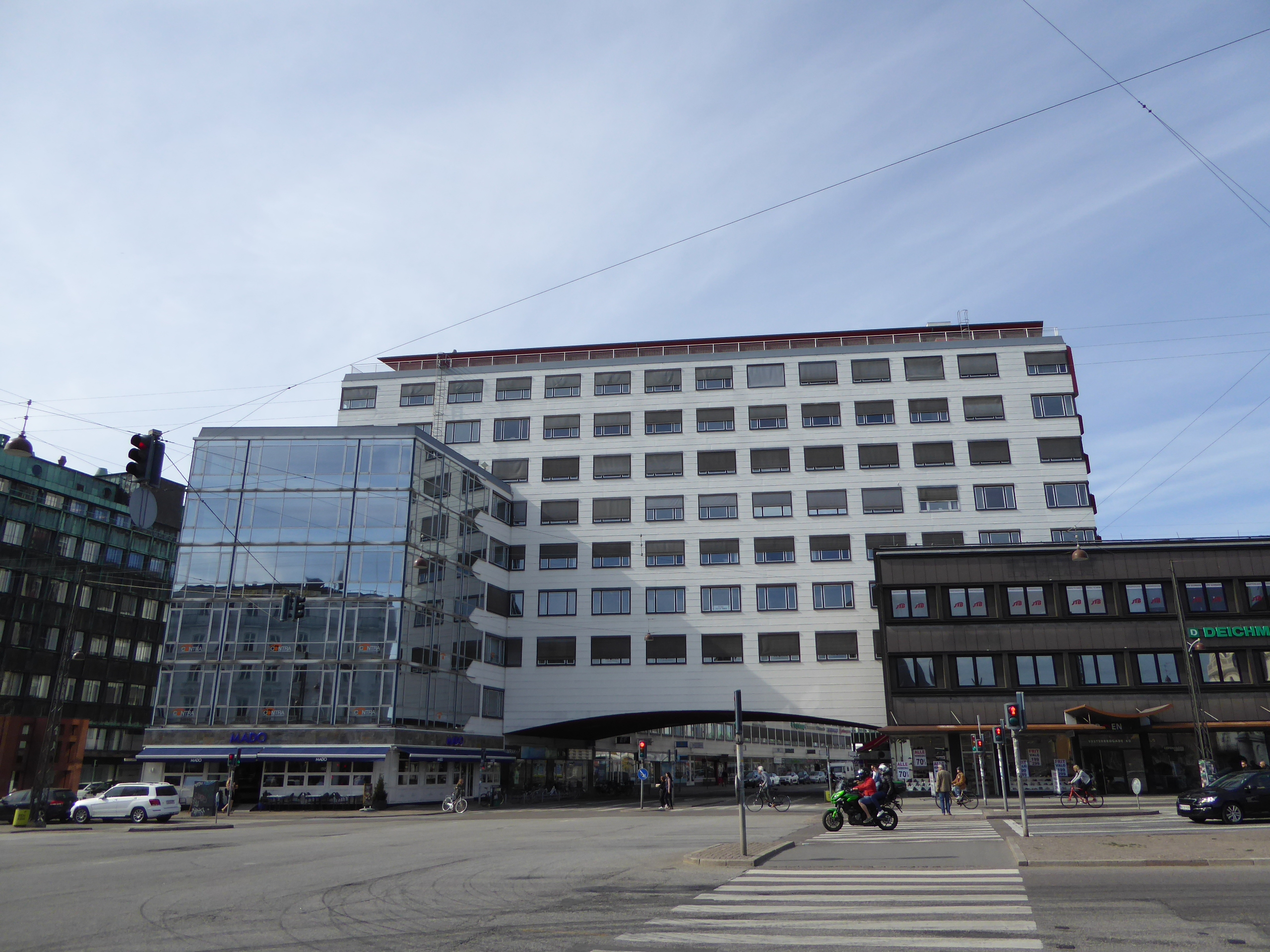 The office building Buen at Vesterbrogade in Vesterbro in Copenhagen. The street Vester Farimagsgade goes under the building.